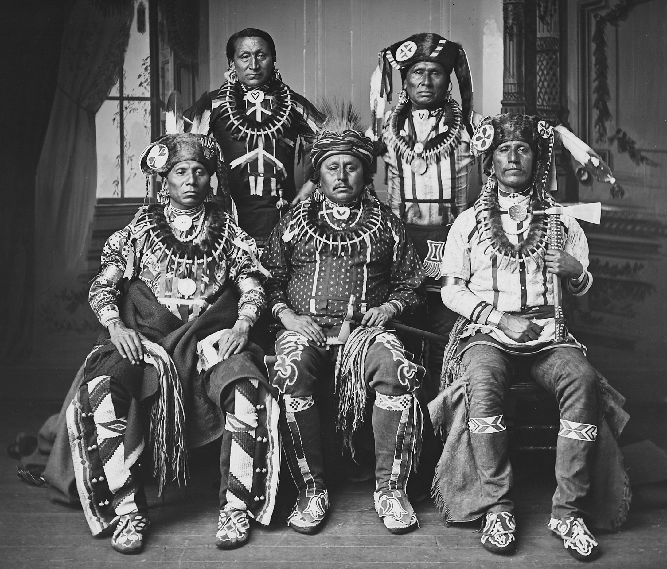 Oto delegation of five wearing claw necklaces and fur turbans.